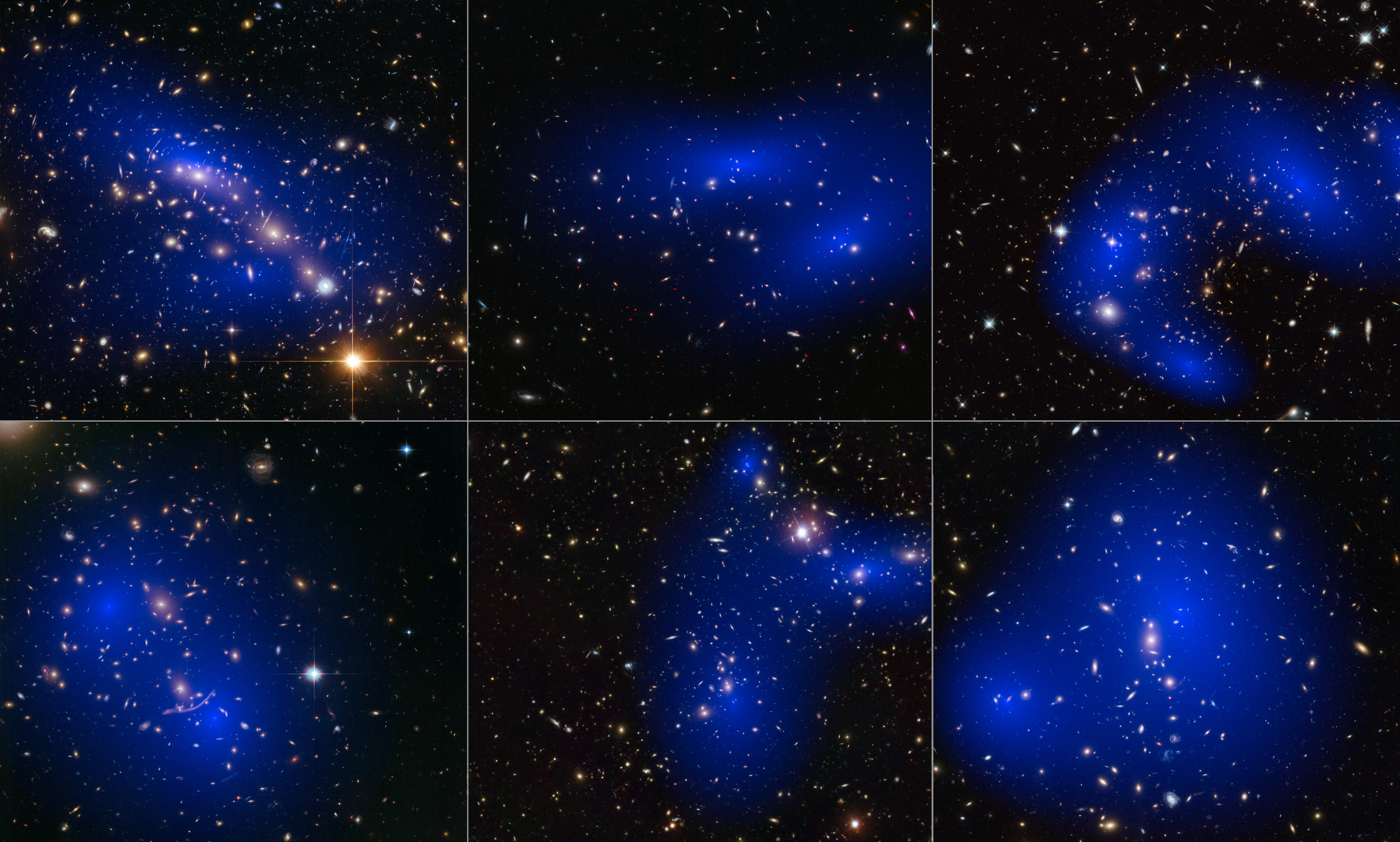 This collage shows NASA/ESA Hubble Space Telescope images of six different galaxy clusters. The clusters were observed in a study of how dark matter in clusters of galaxies behaves when the clusters collide. 72 large cluster collisions were studied in total. Using visible-light images from Hubble, the team was able to map the post-collision distribution of stars and also of the dark matter (coloured in blue). The clusters shown here are, from left to right and top to bottom: MACS J0416.1–2403, MACS J0152.5-2852, MACS J0717.5+3745, Abell 370, Abell 2744 and ZwCl 1358+62.